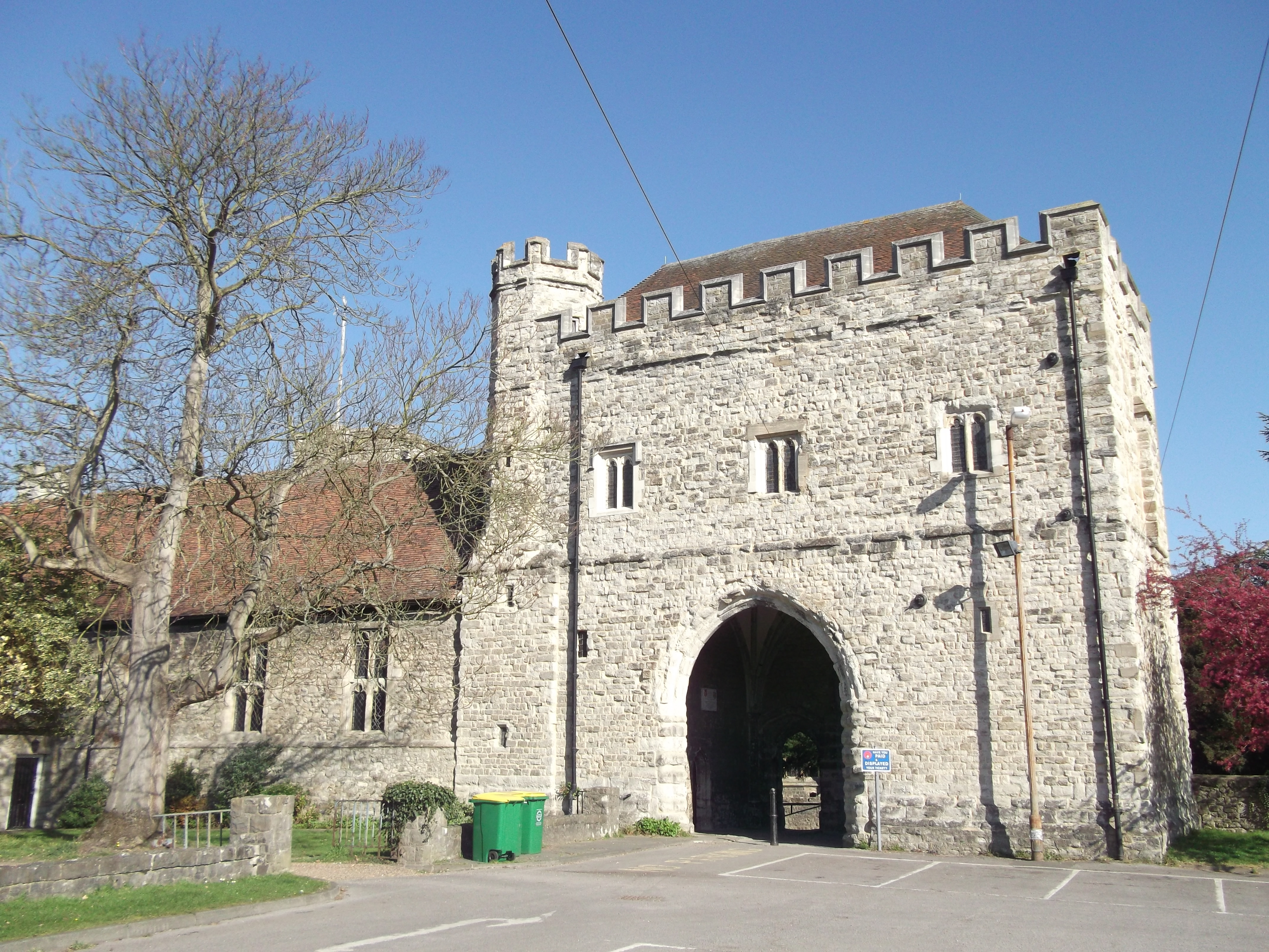 South side of the College Gateway (All Saints Parish Room), College of All Saints, Maidstone